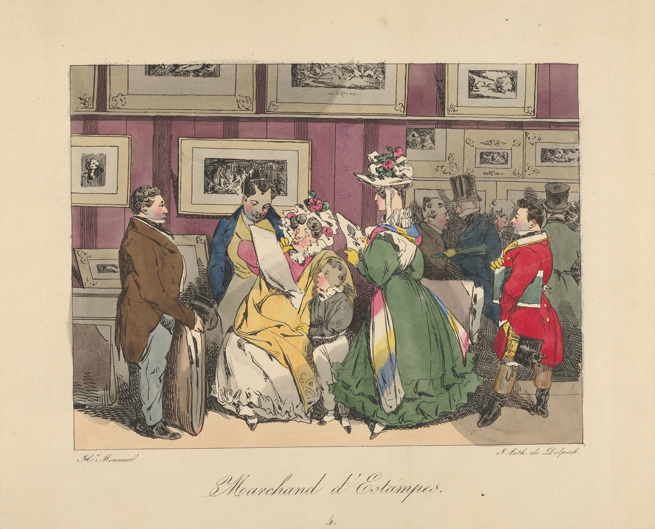 Print; Prints